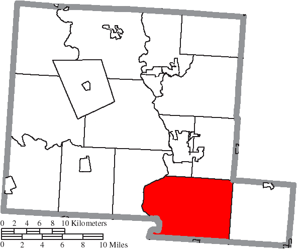 Map of the municipal and township boundaries of Pickaway County, Ohio, United States, as of the 2000 census, with the location of Pickaway Township highlighted. Township borders are shown only in unincorporated areas in order to differentiate incorporated and unincorporated areas more clearly.